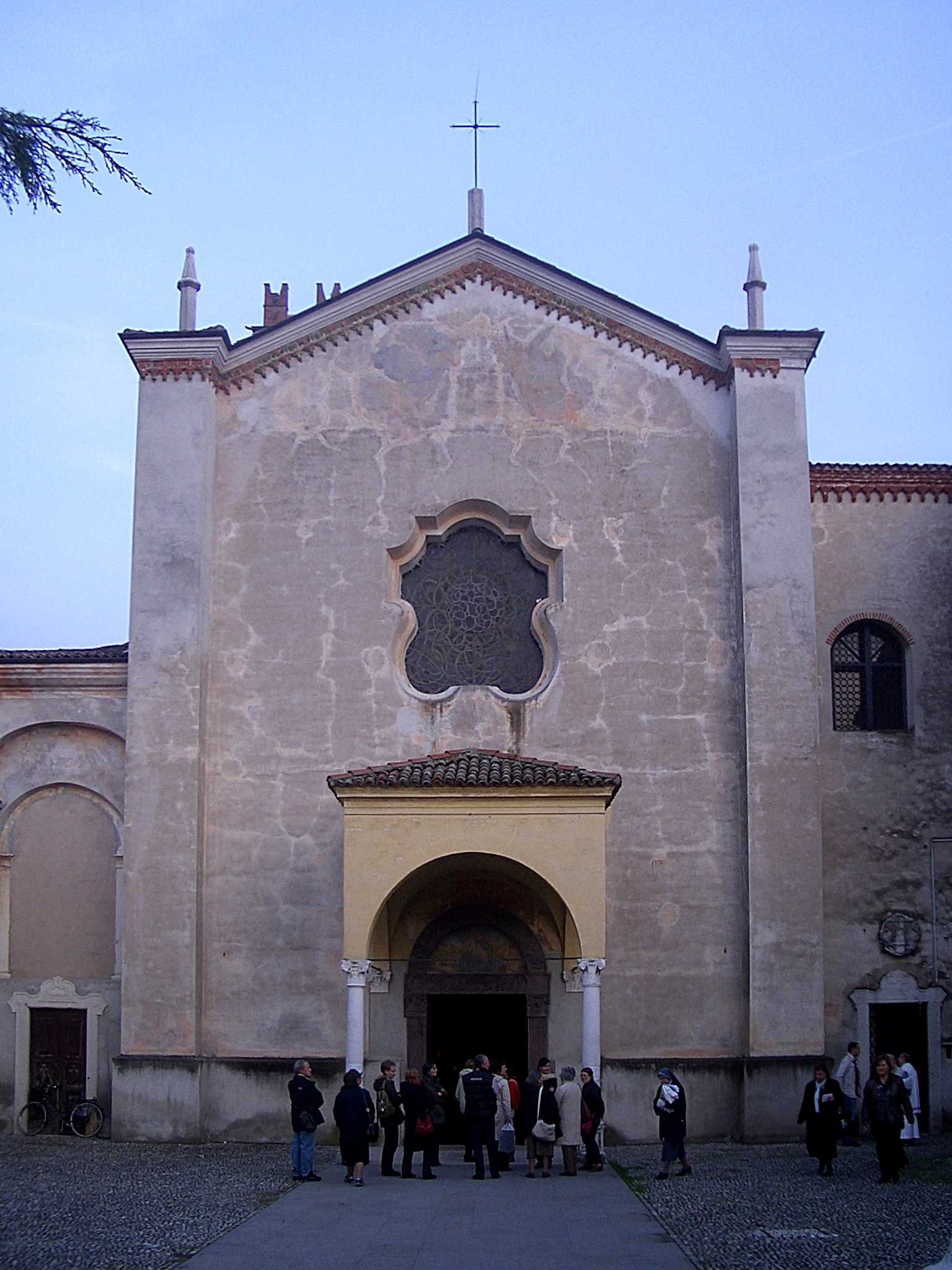 Abbey of Rodengo Saiano, facade of the San Nicola church, XV century